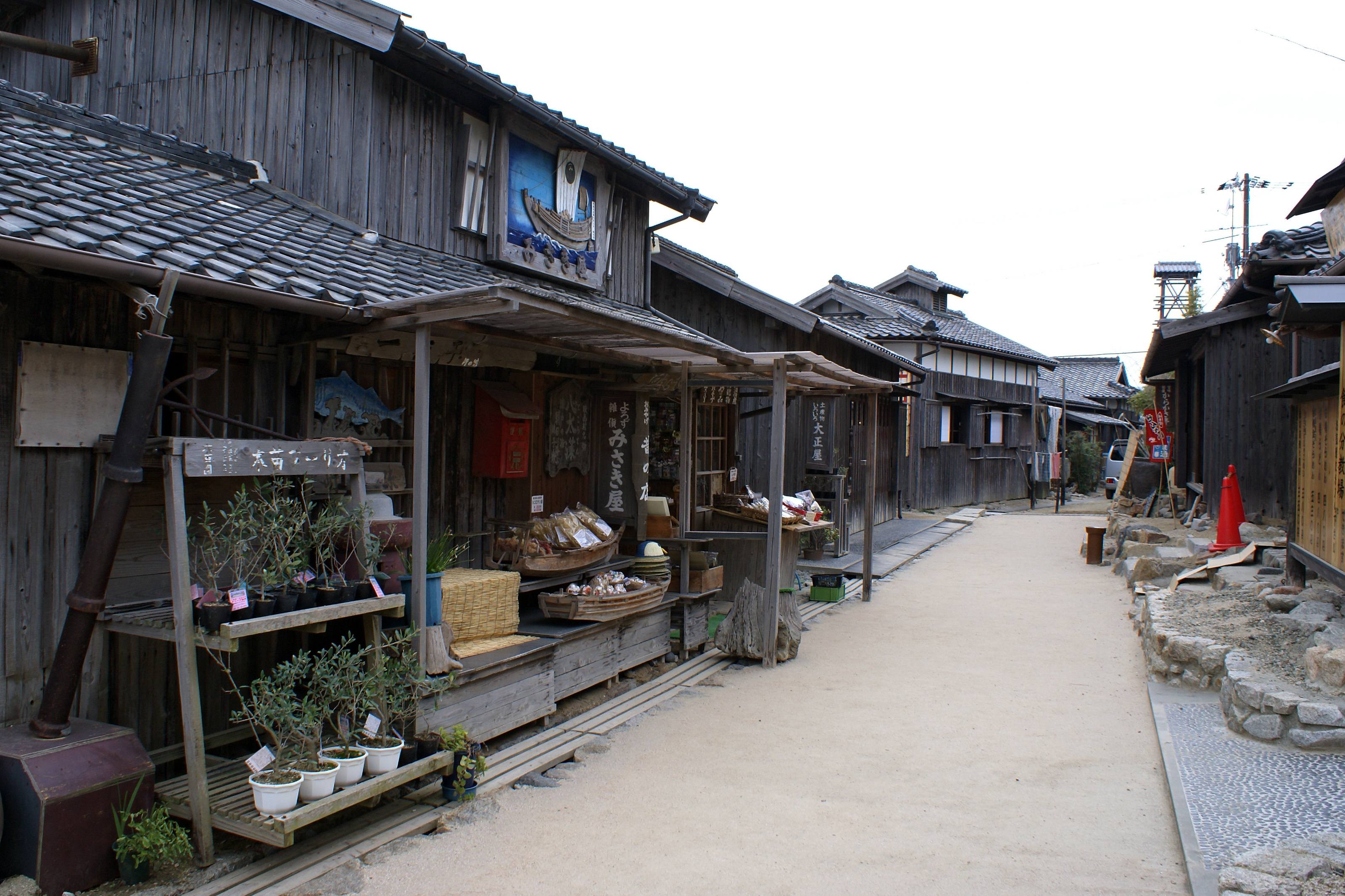 The amusement park of "Twenty-four eyes" in Shodoshima Island, Kagawa Prefecture, Japan)